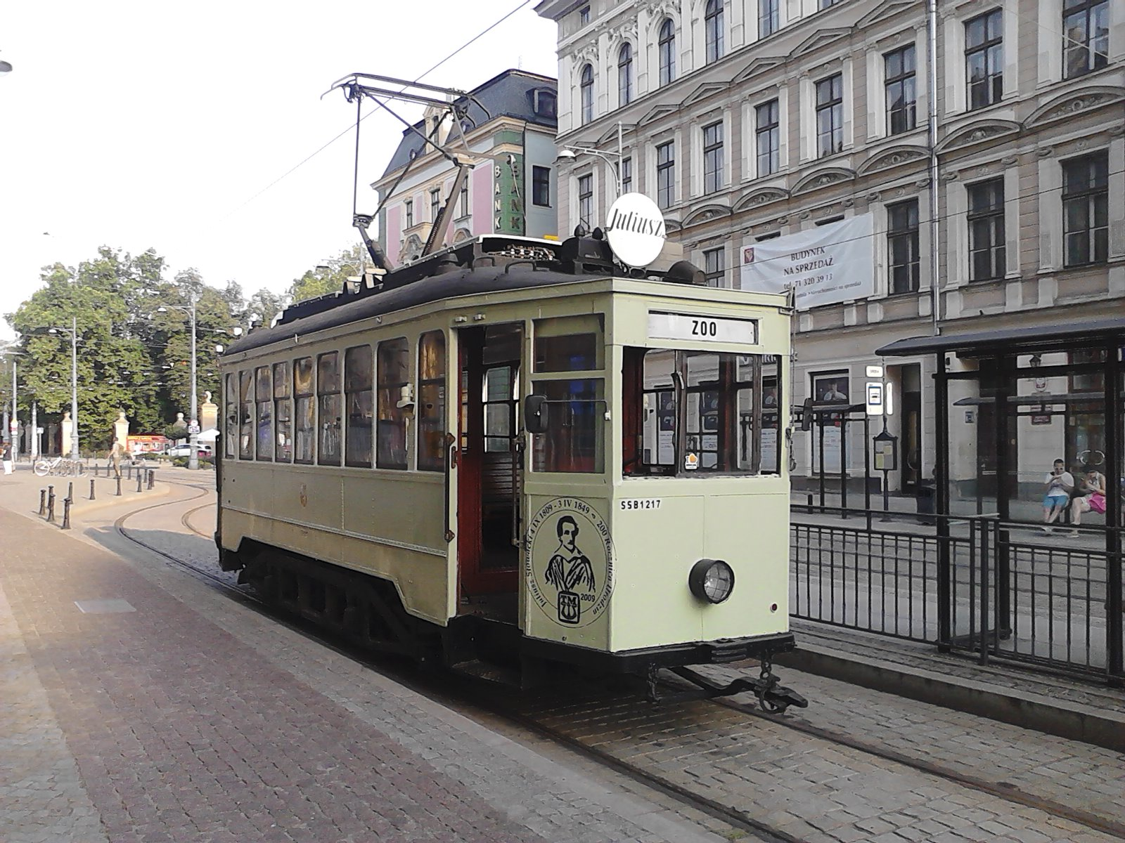 Old tram in Wrocław, Poland, Teatralny Square